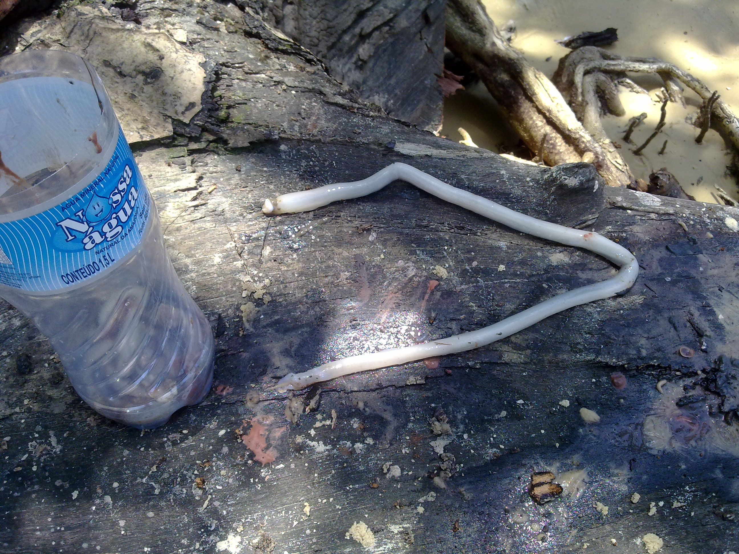 Teredo or Turu extracted from mangrove wood near Joanes, Marajo island, Brasilia